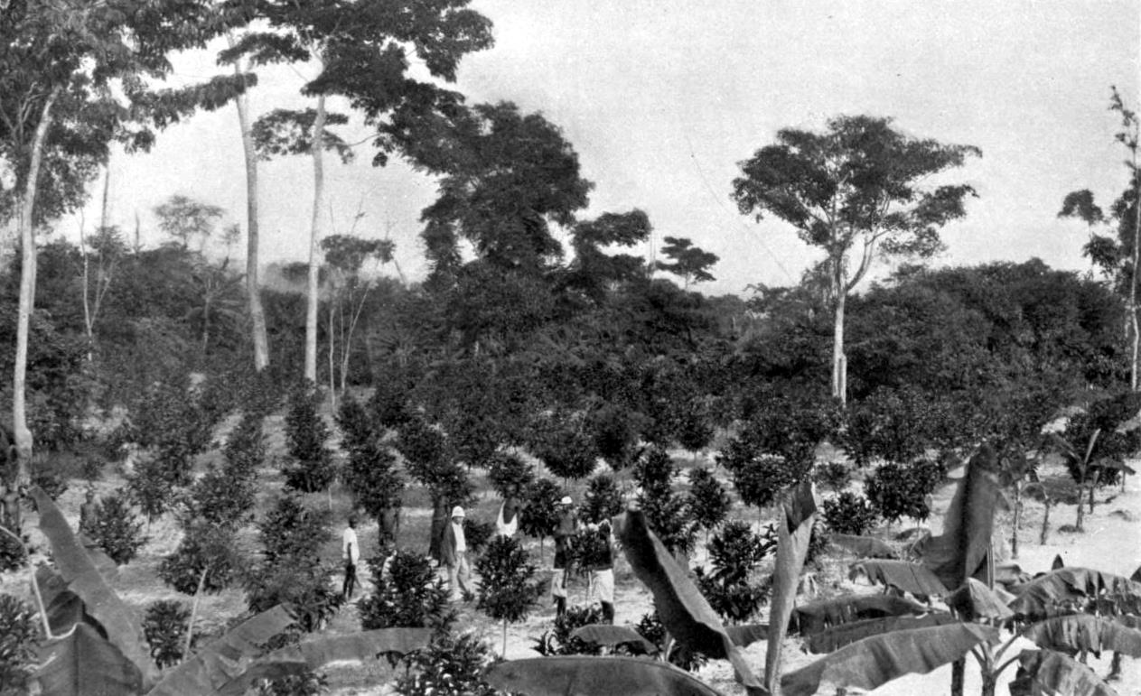 Coffee Plantation at Yalicombe (Oriental Province) - p. 258